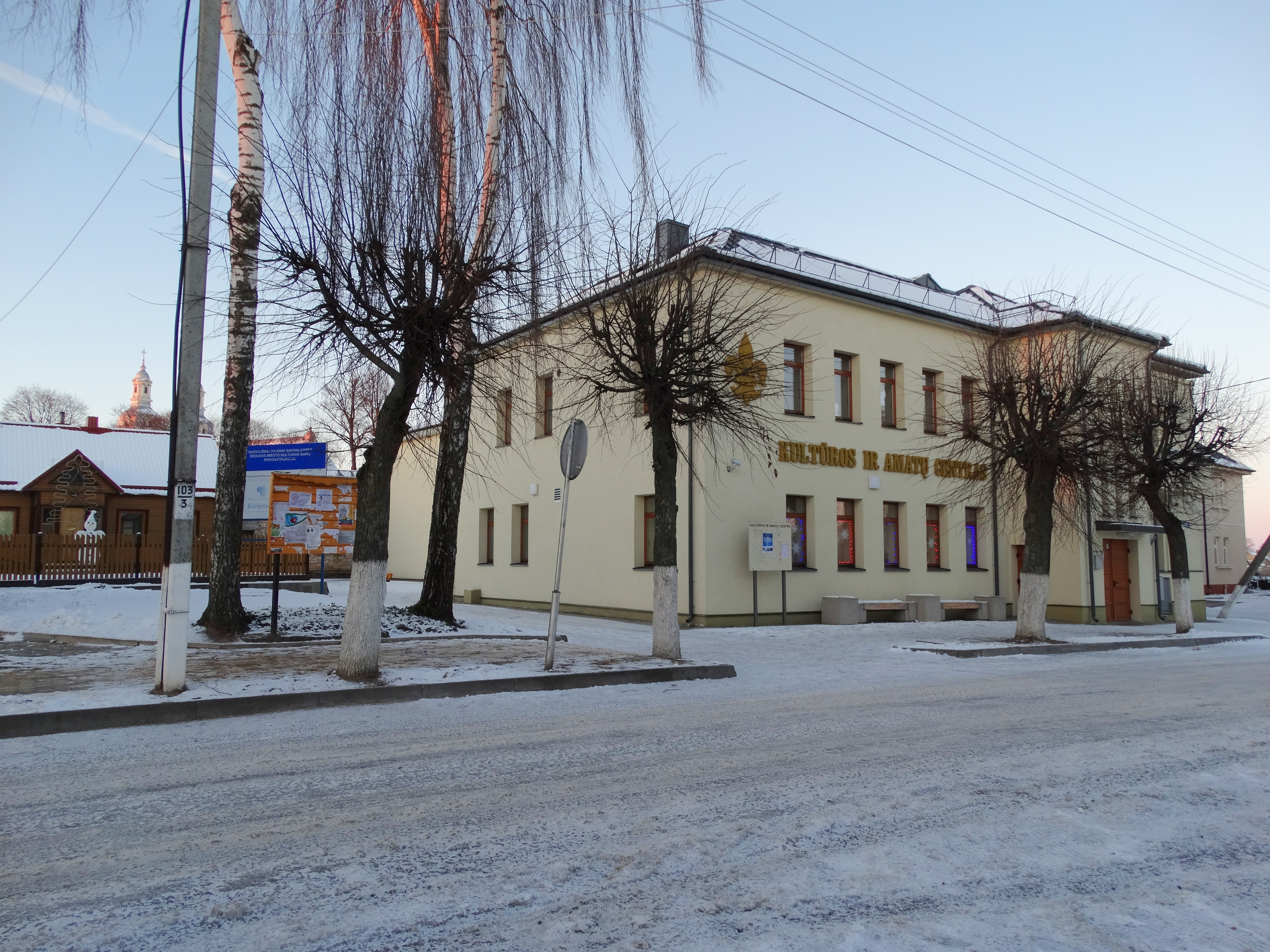 Centre of culture and crafts, Šeduva, Lithuania